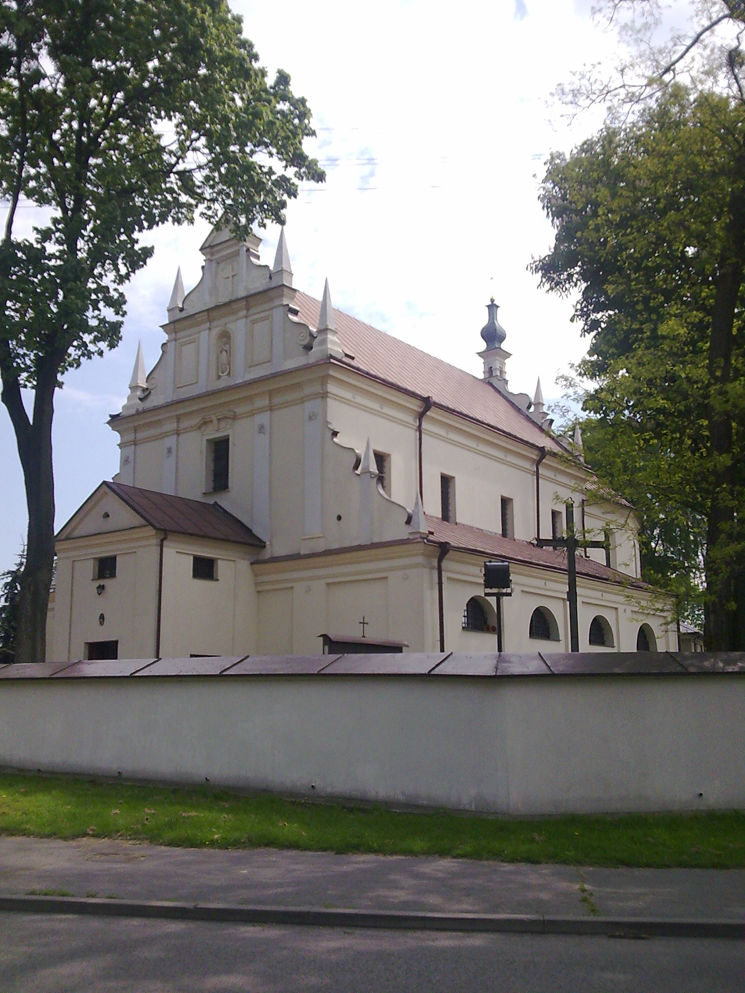 Saint Michael Archangel and the Nativity of the Virgin Mary church in Kurów.